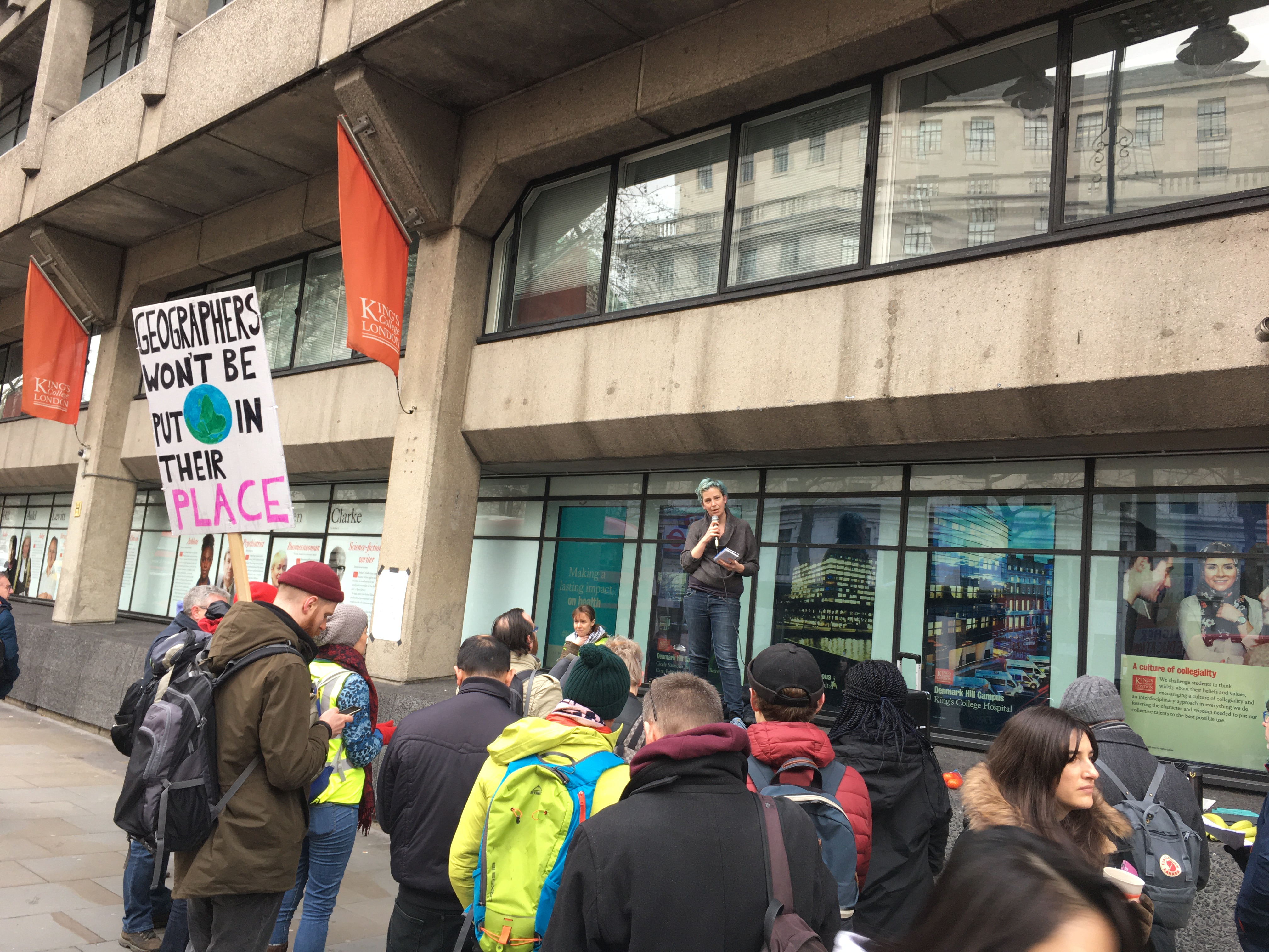 In front of the Strand Campus entrance of King's College London, a small teach-out is being held in early March 2020, with a speaker standing on part of the building as part of the University and College Union's industrial action against KCL. Part of the 2018–20 UK higher education strikes.